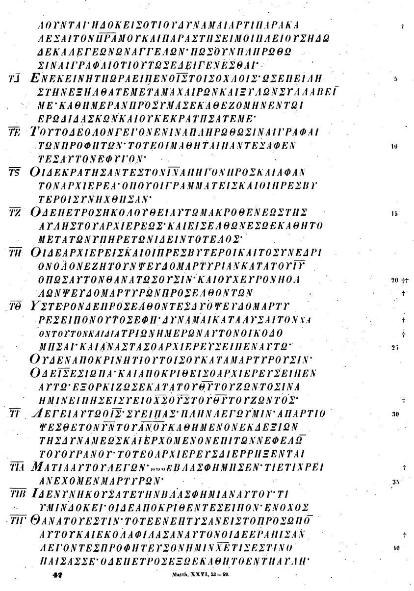 page of the codex with text of Matthew 26:52-69